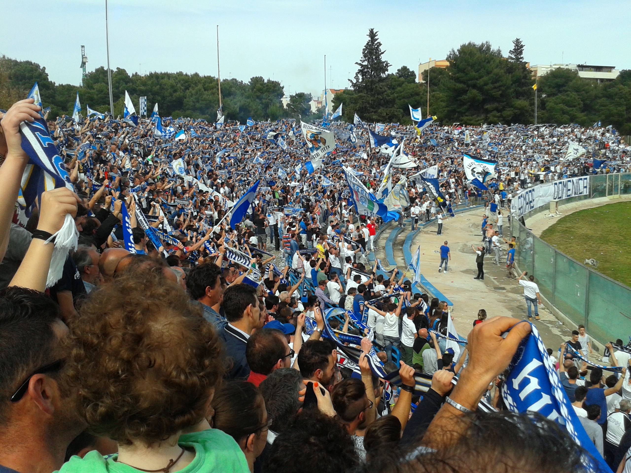 Fidelis Andria Supporters